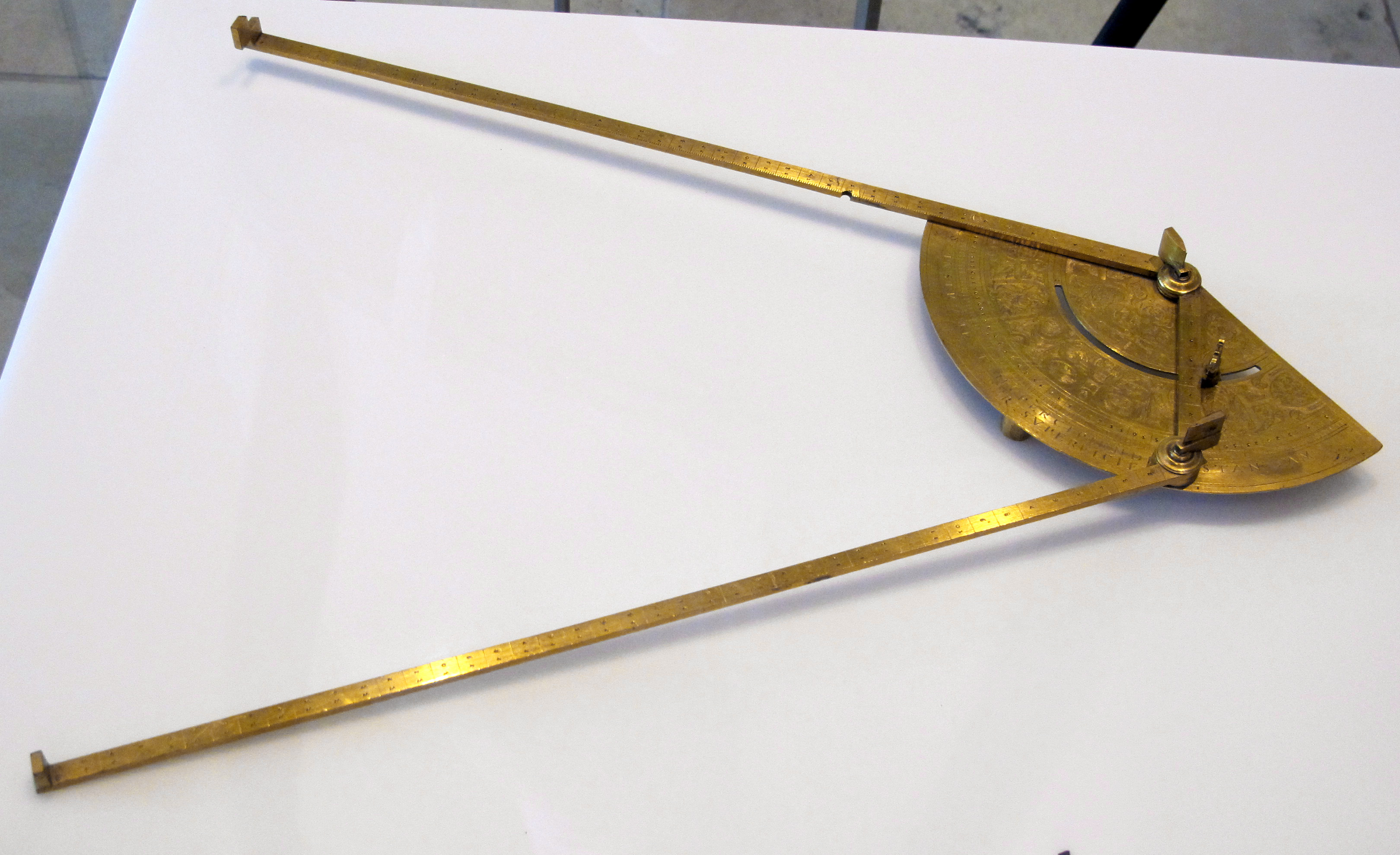 Triangulation instrument.